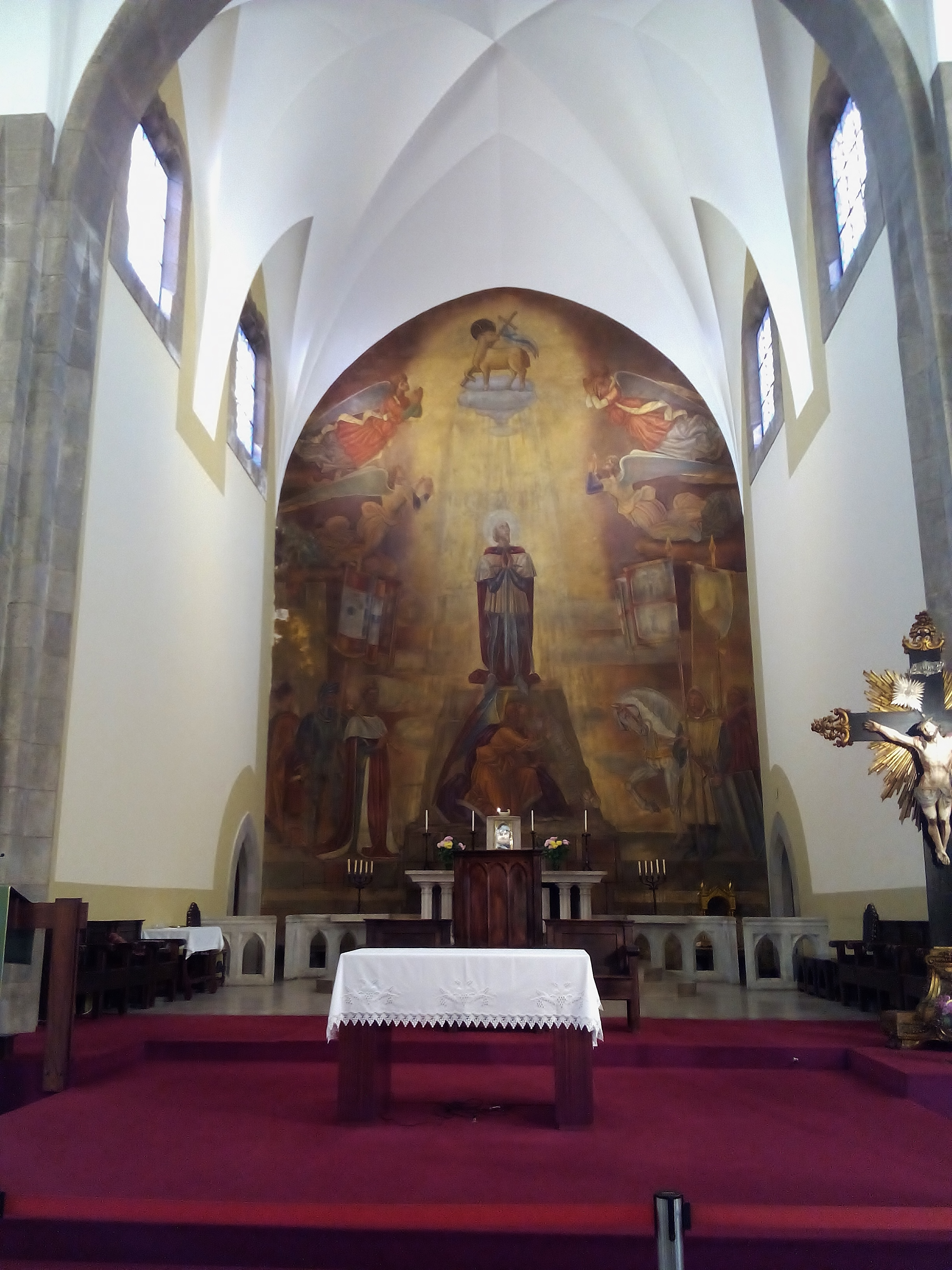 Altar of Santo Condestável Church, in Lisbon, Portugal.